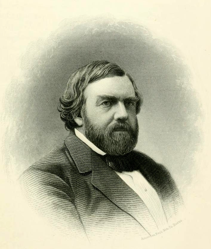 Ezekiel Albert Straw, from an engraving published in Manchester, A Brief Record of its Past; A Picture of its Present, 1875, by John B. Clarke, Manchester, New Hampshire.